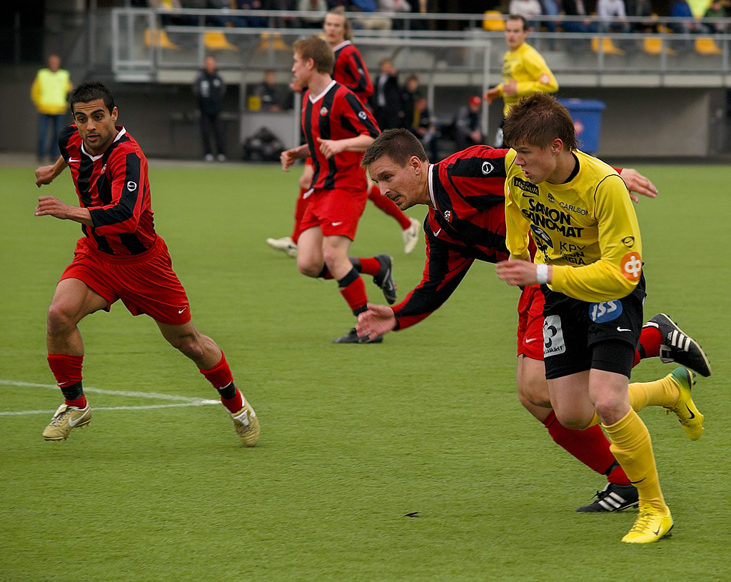 Attacking midfielder Petteri Pennanen of KuPS rushing to PK-35 penalty area. Match: KuPS v PK-35 at Magnum Areena, Kuopio. Game ended 2-1.